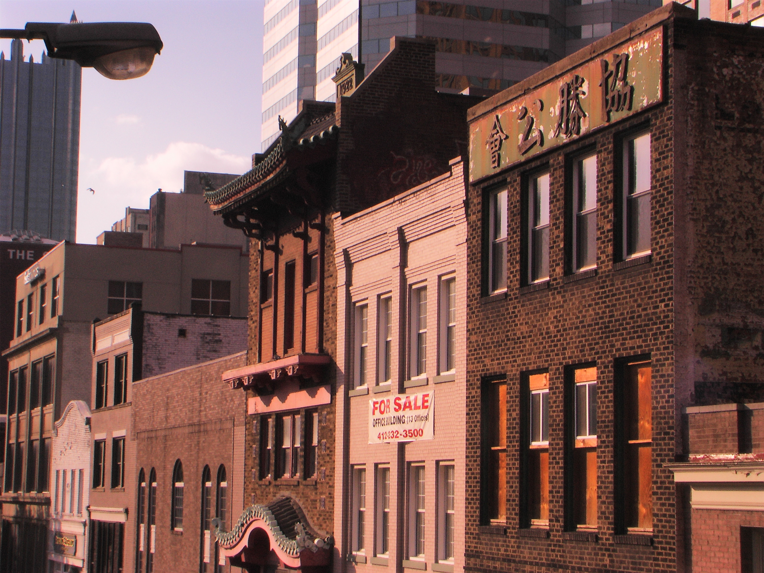 HeyYallYo This is old "Chinatown" in Pittsburgh, Pa.